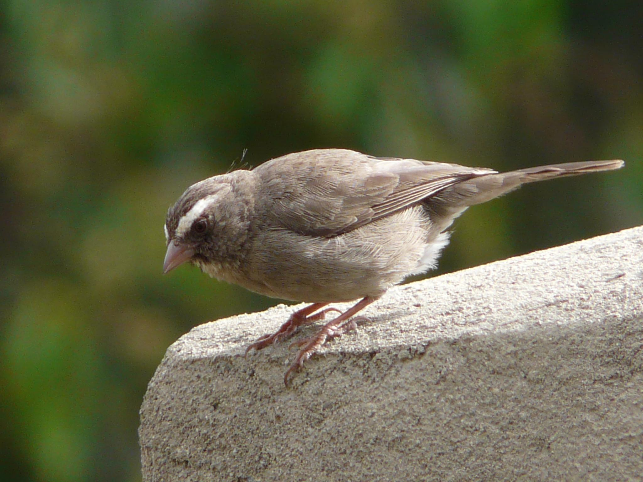 A Brown-rumped Seedeater in Ethiopia.